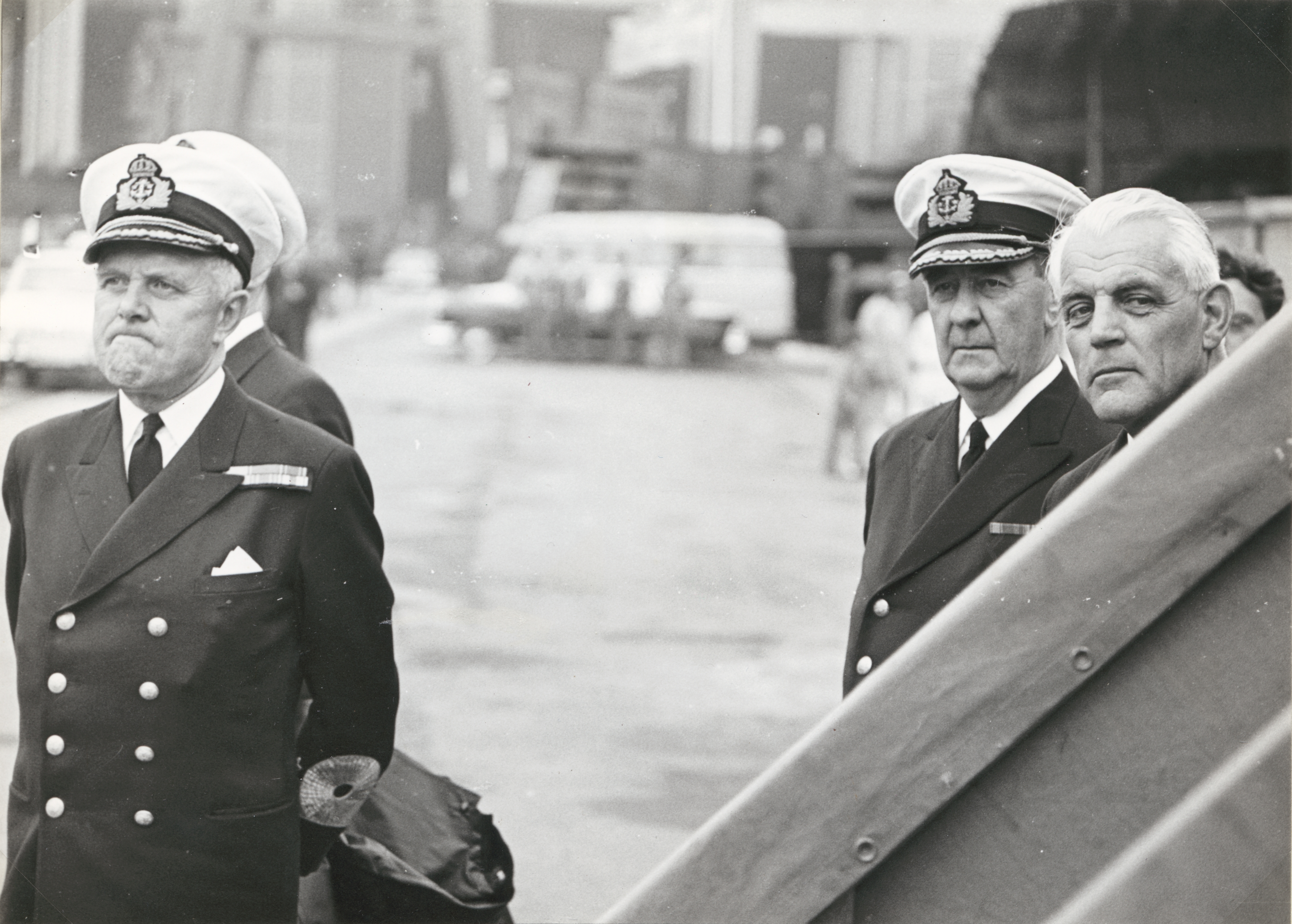 The Chief of the Navy, Vice Admiral Åke Lindemalm, the chief of the Royal Swedish Naval Materiel Administration, Rear Admiral Sigurd Lagerman and the CEO of Kockums, Nils Holmström prior to the launch of the submarine HMS Sjölejonet (Sle).